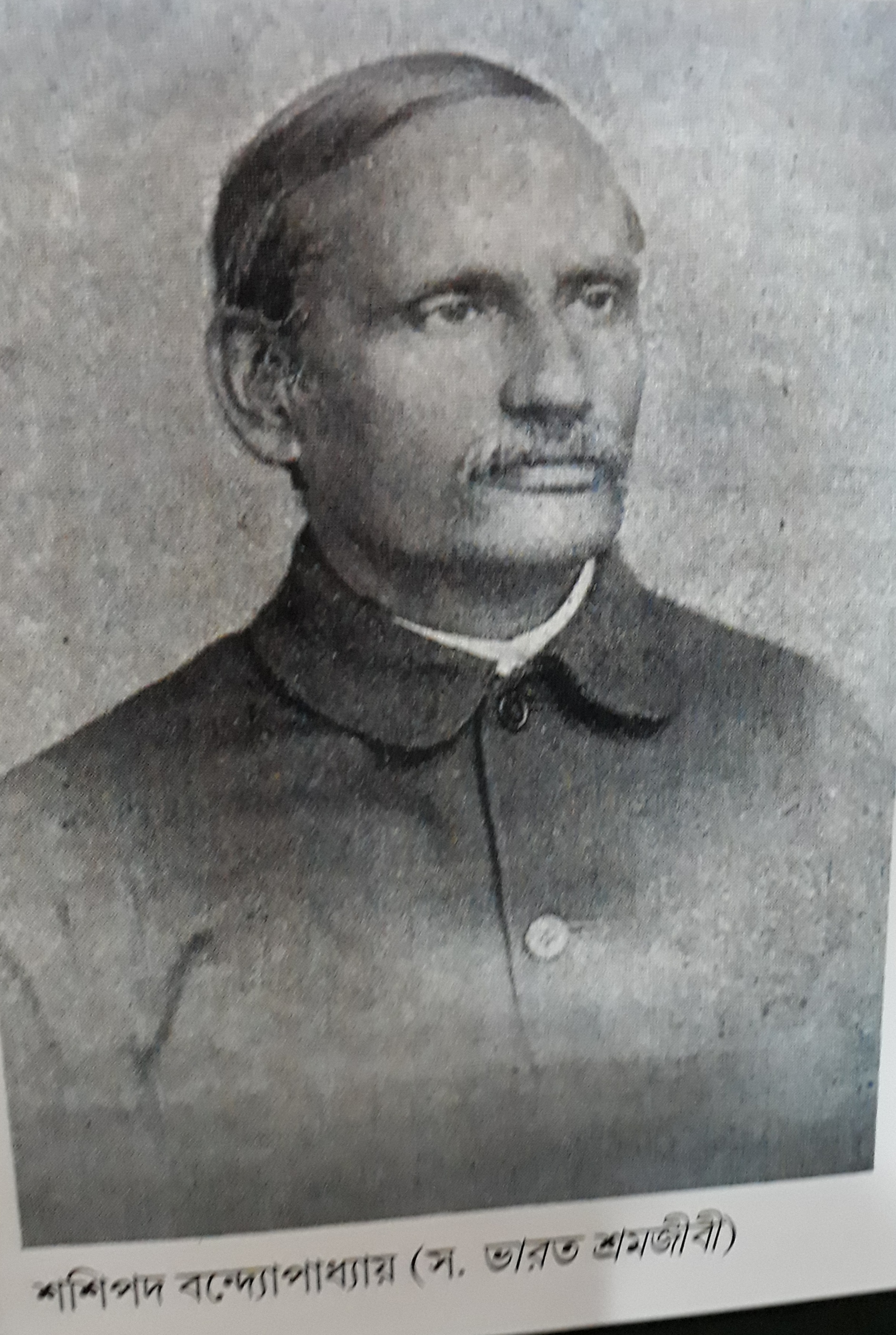 Editor, 'Bharat Shramajibi', first published from Calcutta 1874.